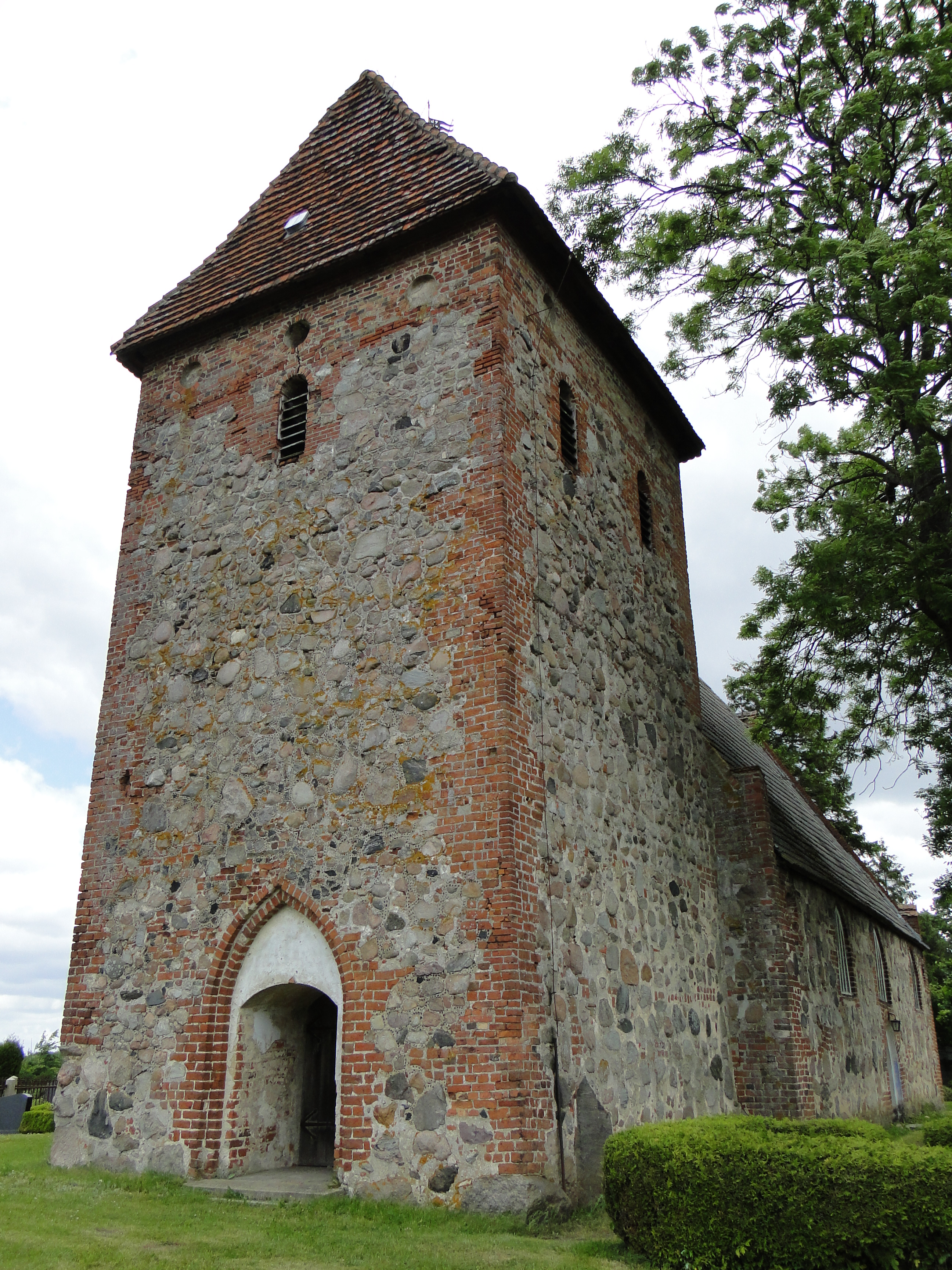 Church in Hohen Pritz, district Ludwigslust-Parchim, Mecklenburg-Vorpommern, Germany